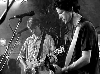 Crowded House playing live in Cafe De Kroon, Amsterdam, june 1996. Left: Neil Finn, right: Mark Hart. Photo by Rien Post.